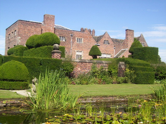 Photograph